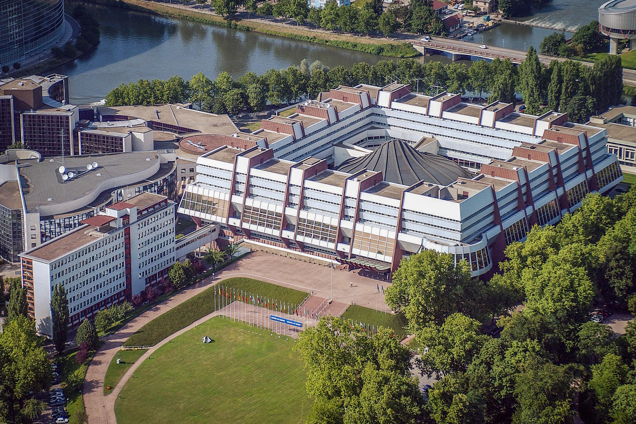 Council of Europe Palais de l'Europe aerial view - Architecte Henry Bernard